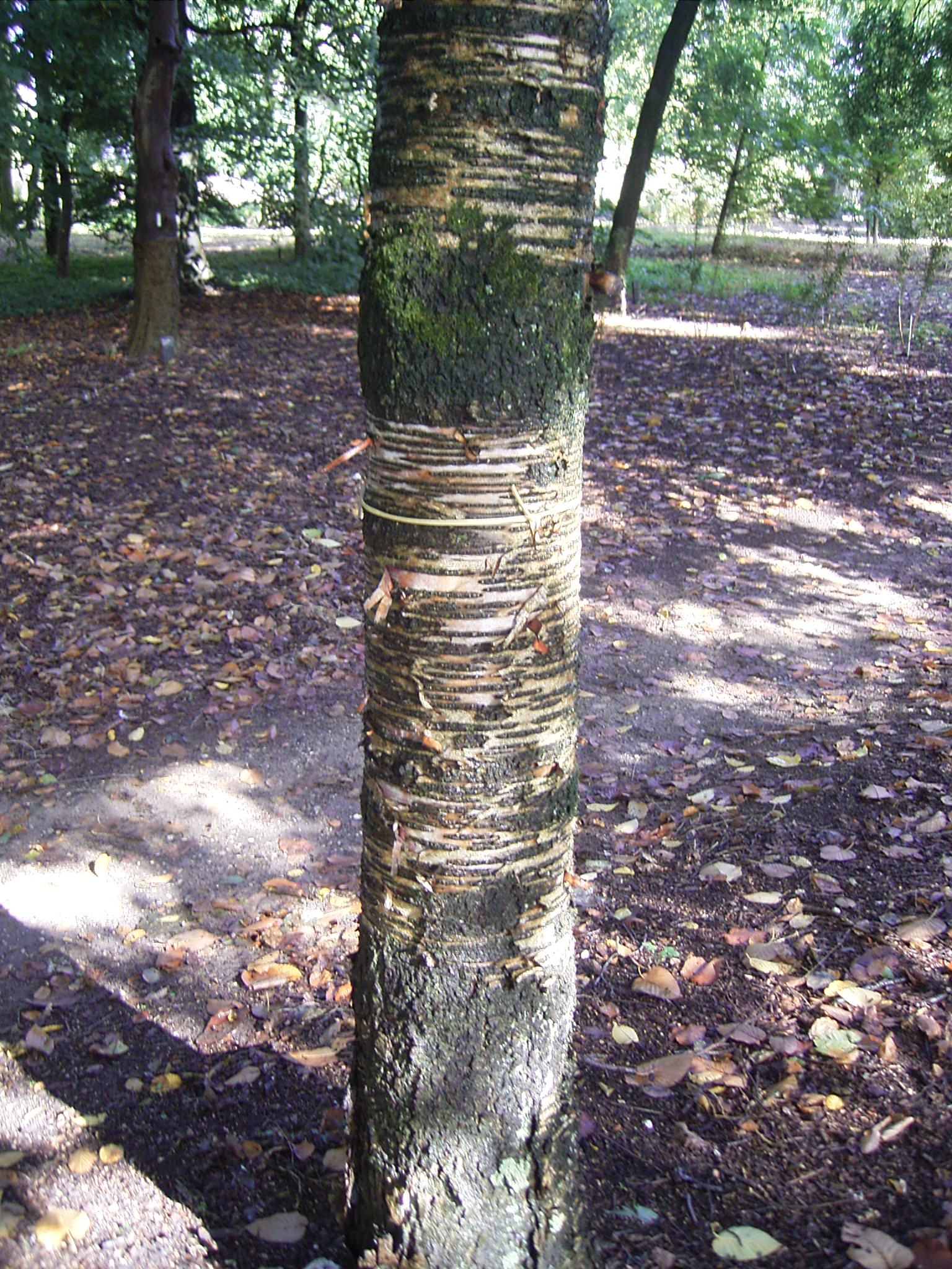 Deze foto toont de stam en bast van Betula_maximowicziana. Ik nam de foto zaterdag 1 oktober 2005 in het arboretum in Wageningen. This pic shows the trunc of Betula_maximowicziana. I took the photo on saturday 1 october 2005 in Wageningen.